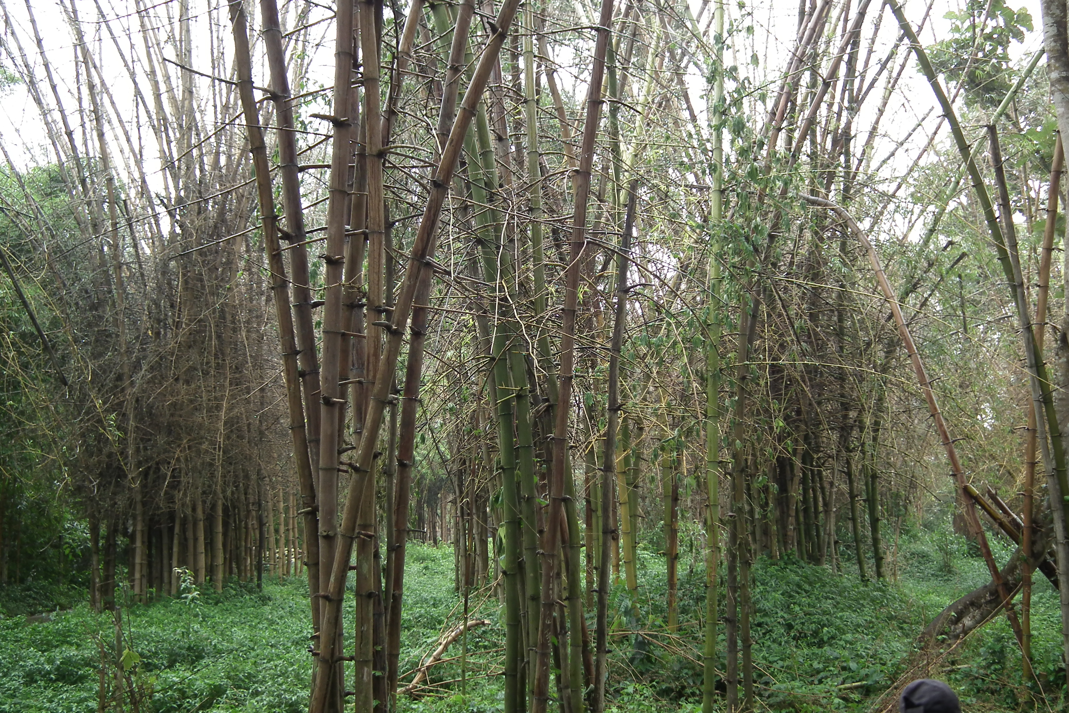 Kaveri Nisargadhama is an island formed by river Kaveri and is used as a picnic spot near Kushalnagar in the district of Kodagu in Karnataka. It is approximately 3 km (1.9 mi) from Kushalanagara, off the State Highway and 30 km (19 mi) from Madikeri and 95 km (59 mi) from Mysore. It is a holiday destination in Karnataka